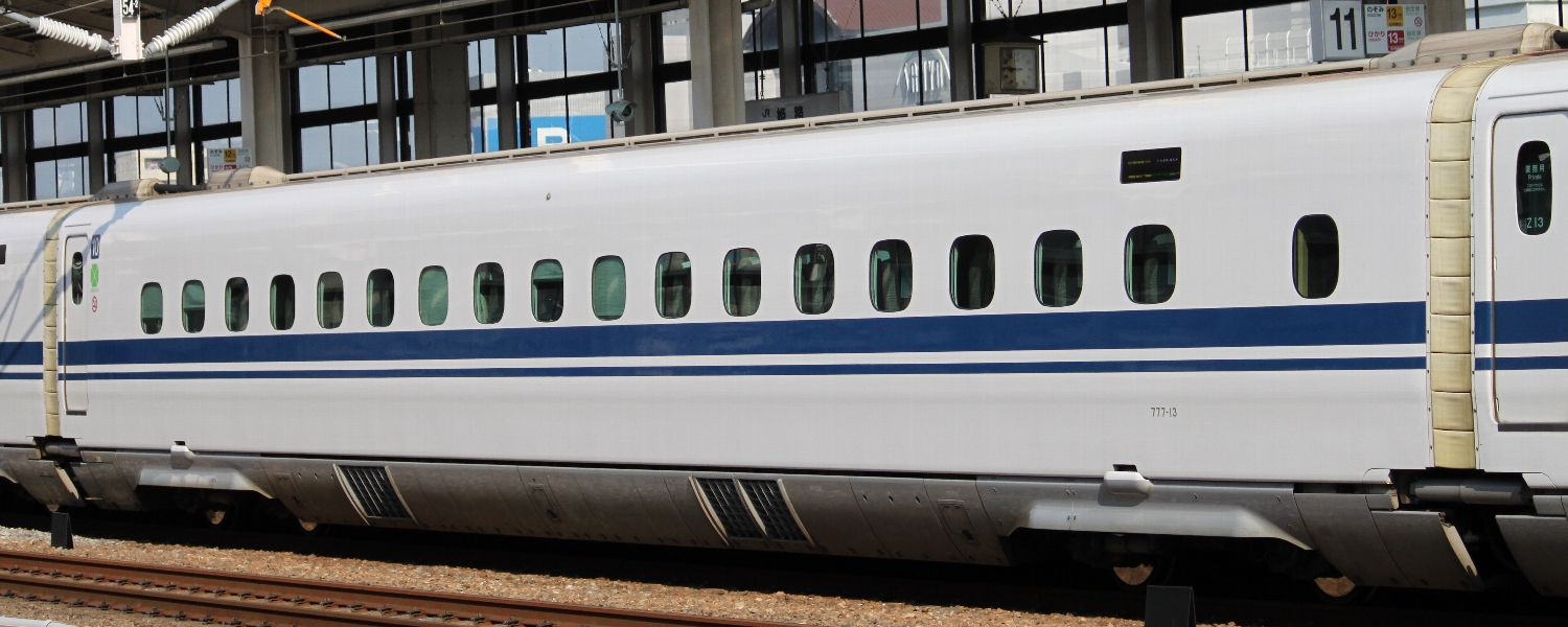 Shinkansen series N700(777-13) in Himeji Station